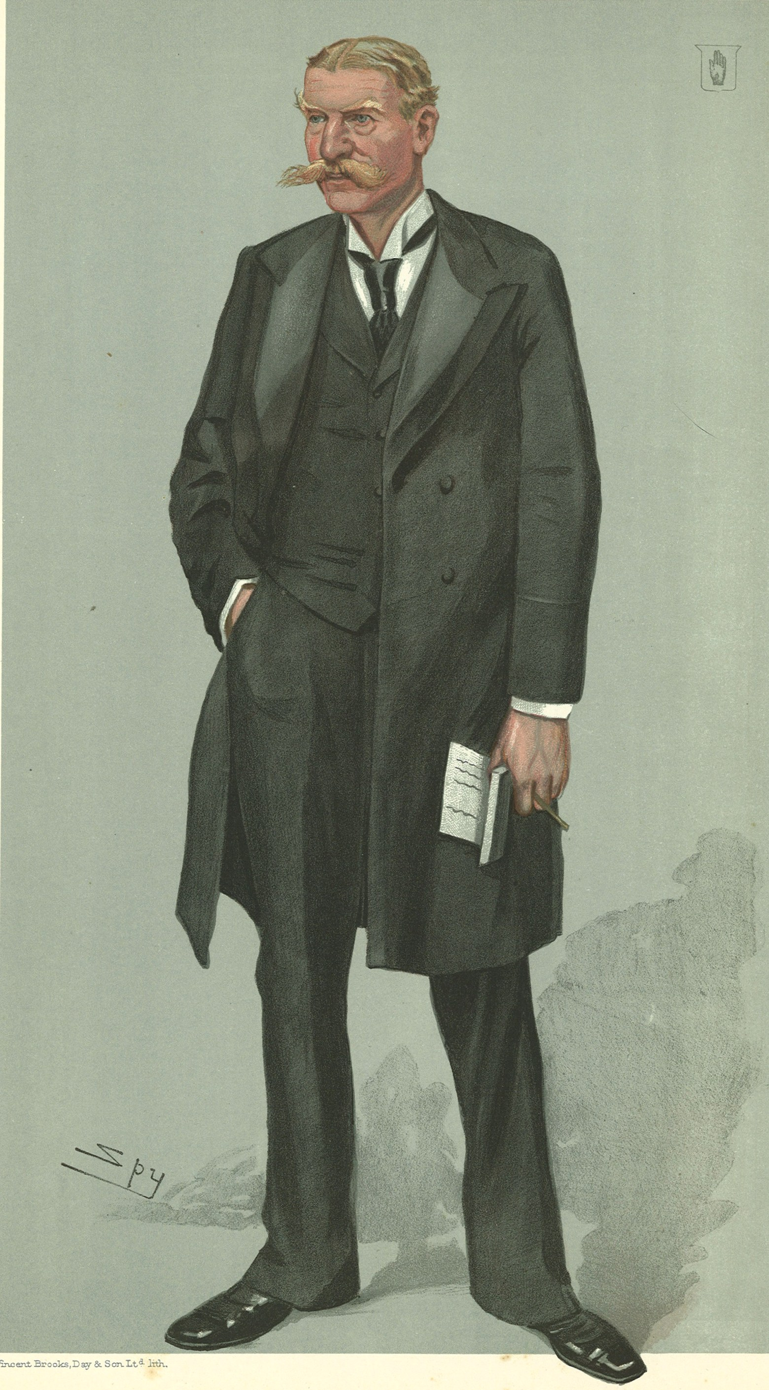 Caricature of Alexander Fuller-Acland-Hood (1853-1917).